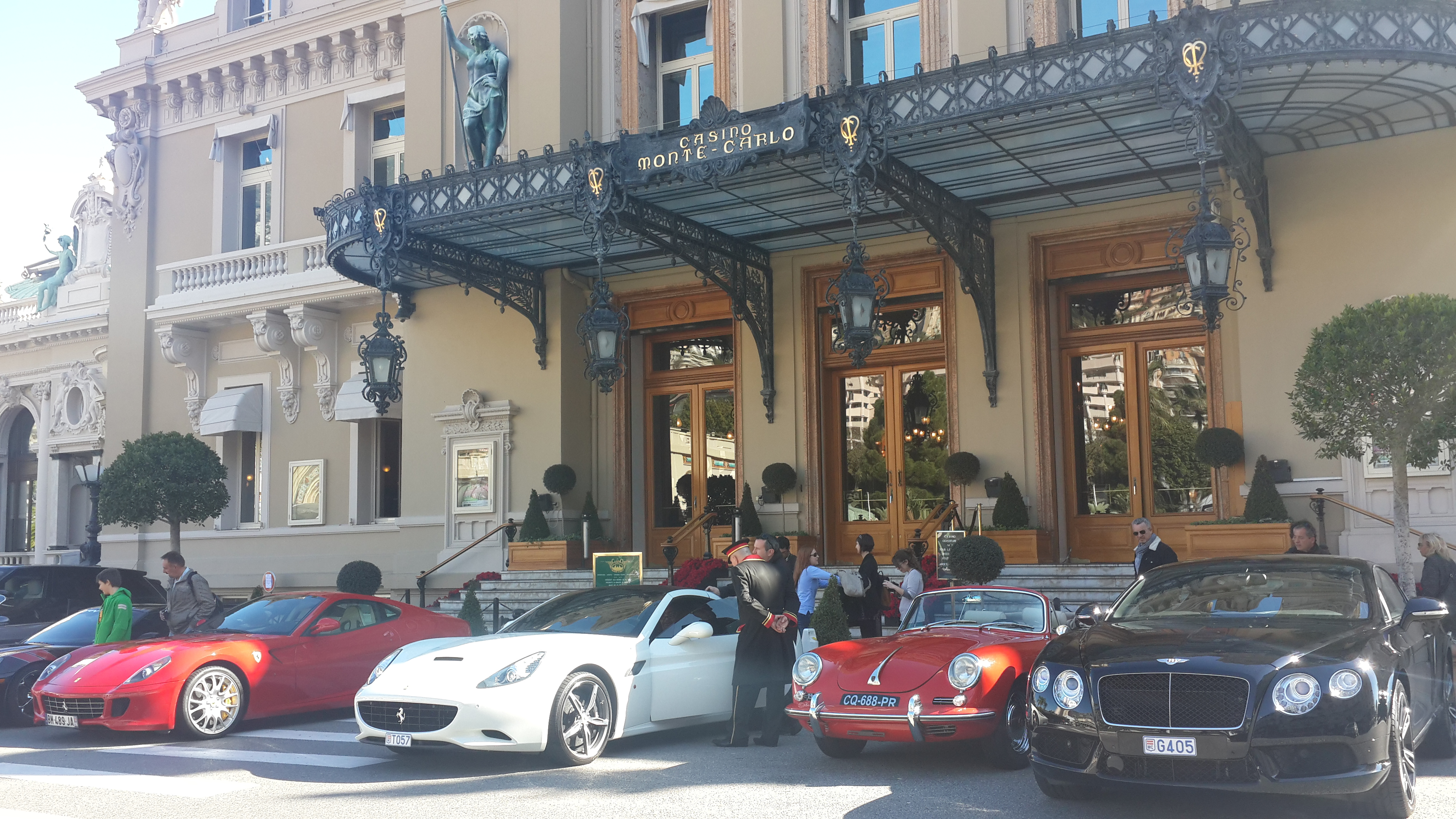 Monte Carlo Casino in Monaco